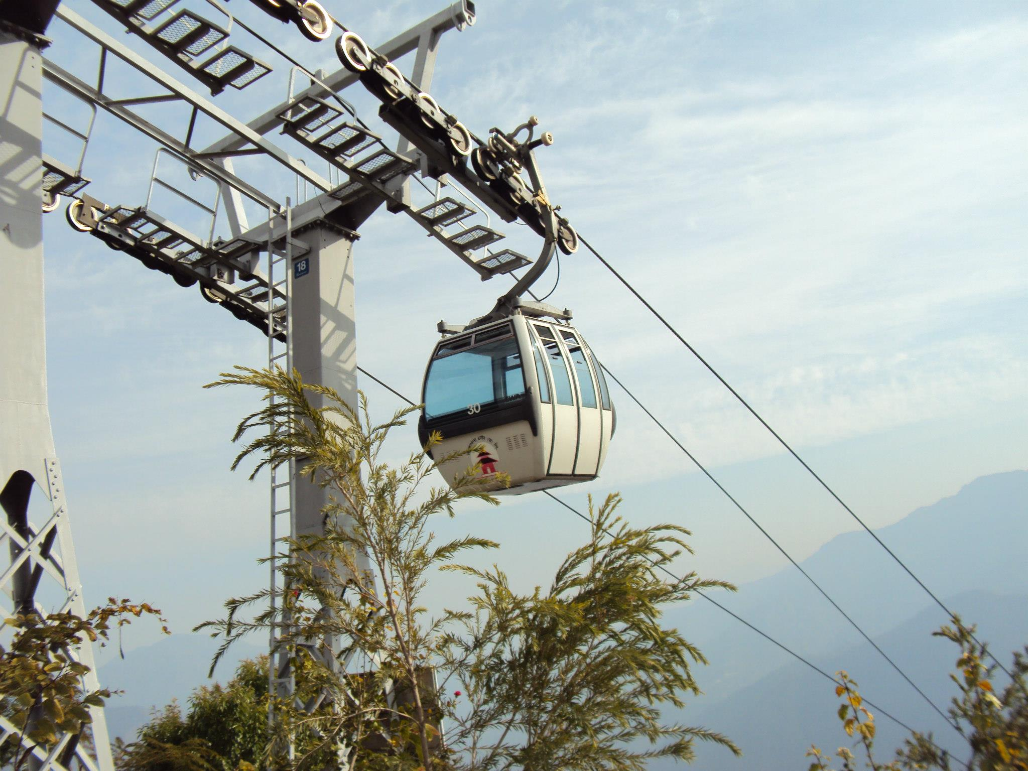 A cable car in Nepal.(Picture taken by:Chanda Ghimire)